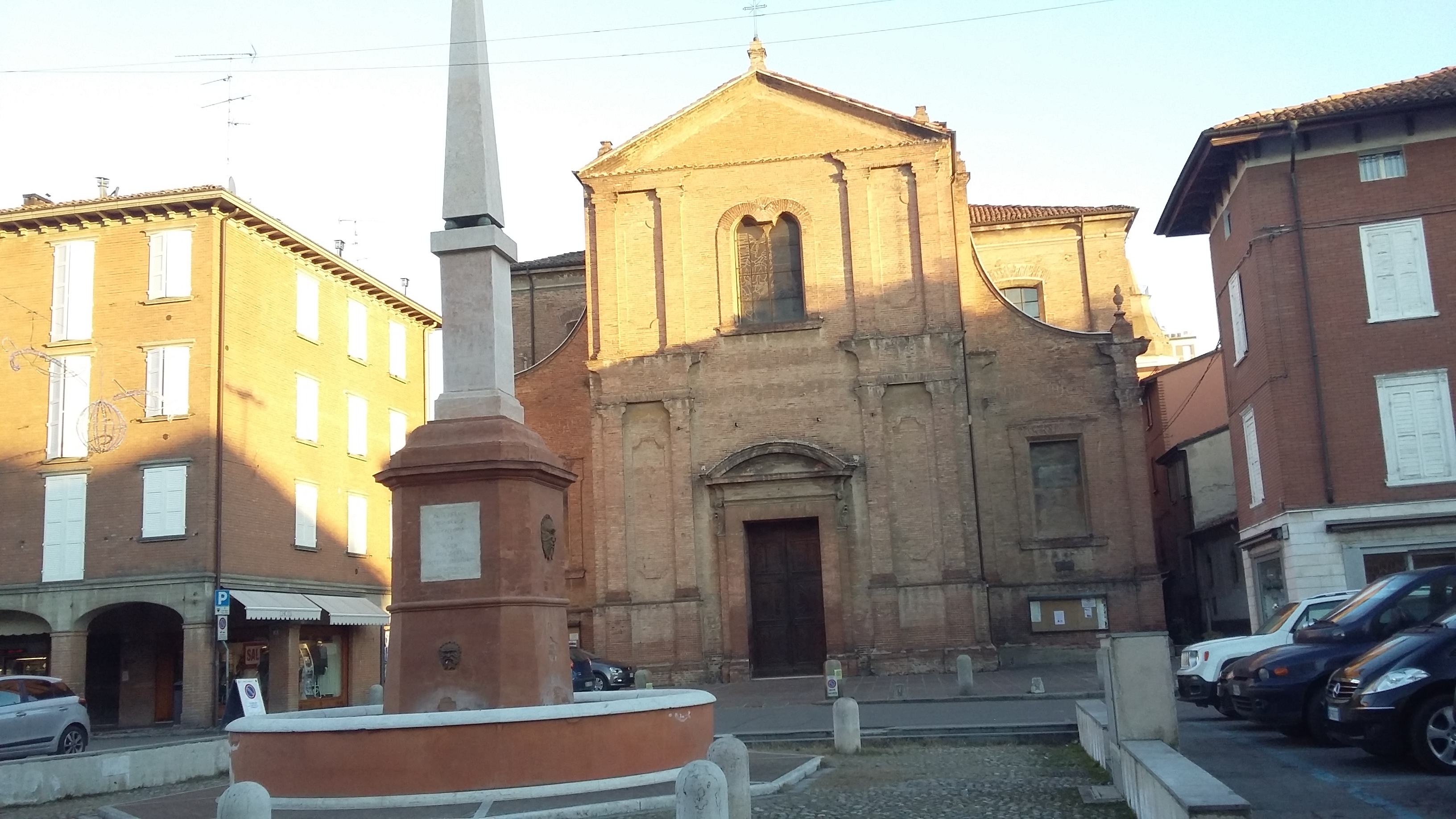 Saint George Church, Sassuolo (MO)